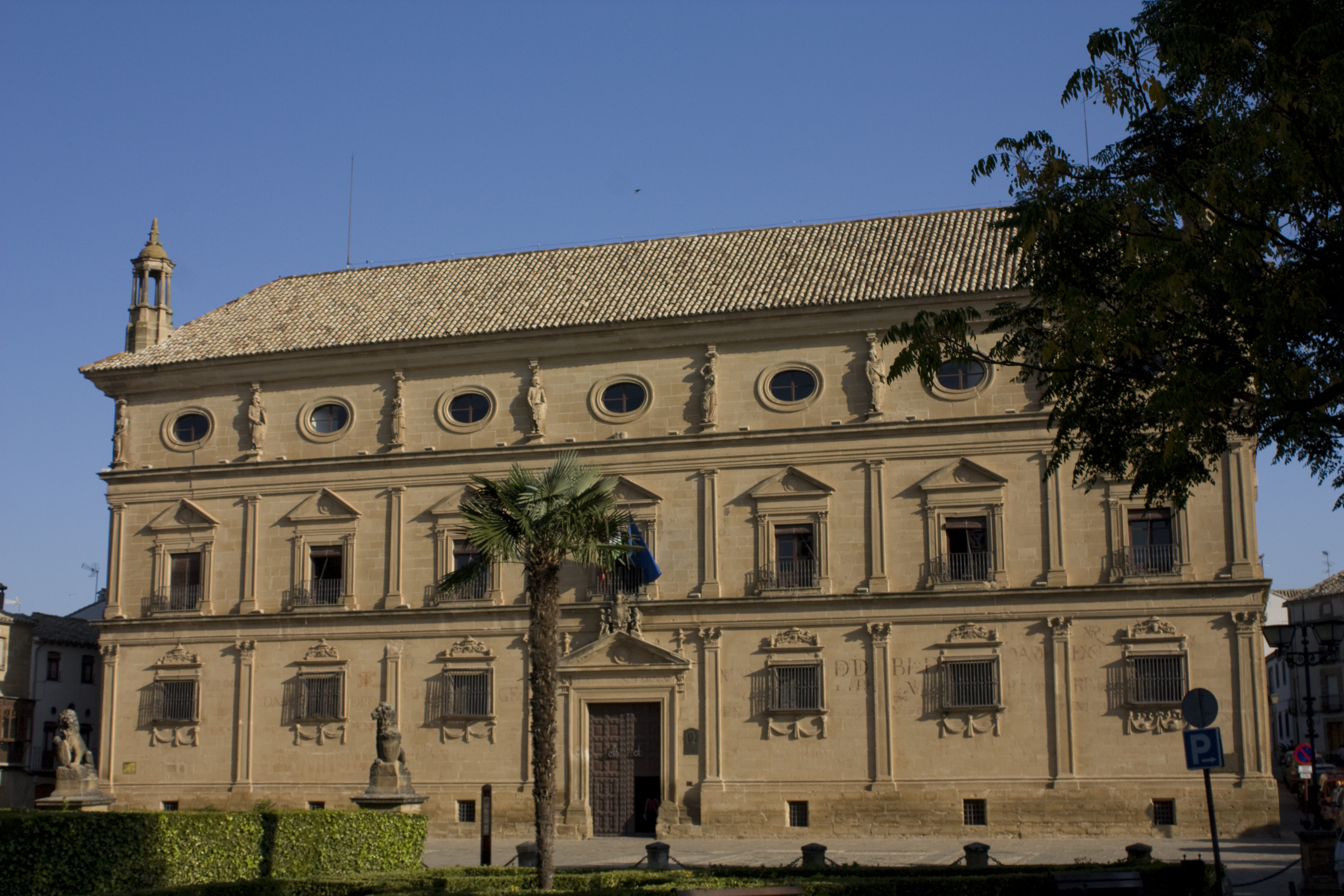 The Palacio de las Cadenas, built in 1550 by Vandelveira, owes its name from the chains that bound his court on the Place de Vázquez de Molina.